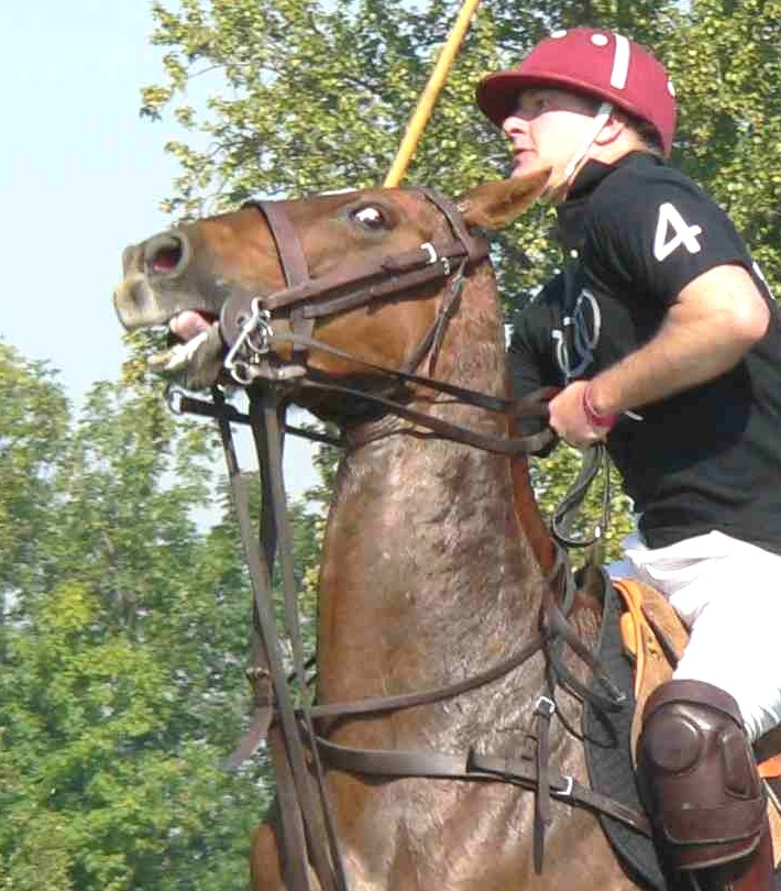 Polo pony wearing a Pelham bit with Curb chain, double reins (snaffle rein and draw rein, standing martingale, and breastplate.